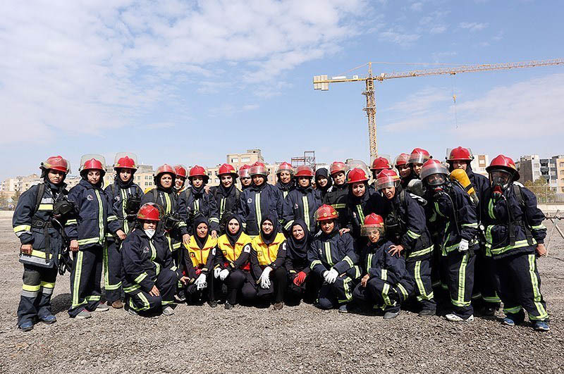 A firefighting training in Mashhad by female firefighters from Mashhad.